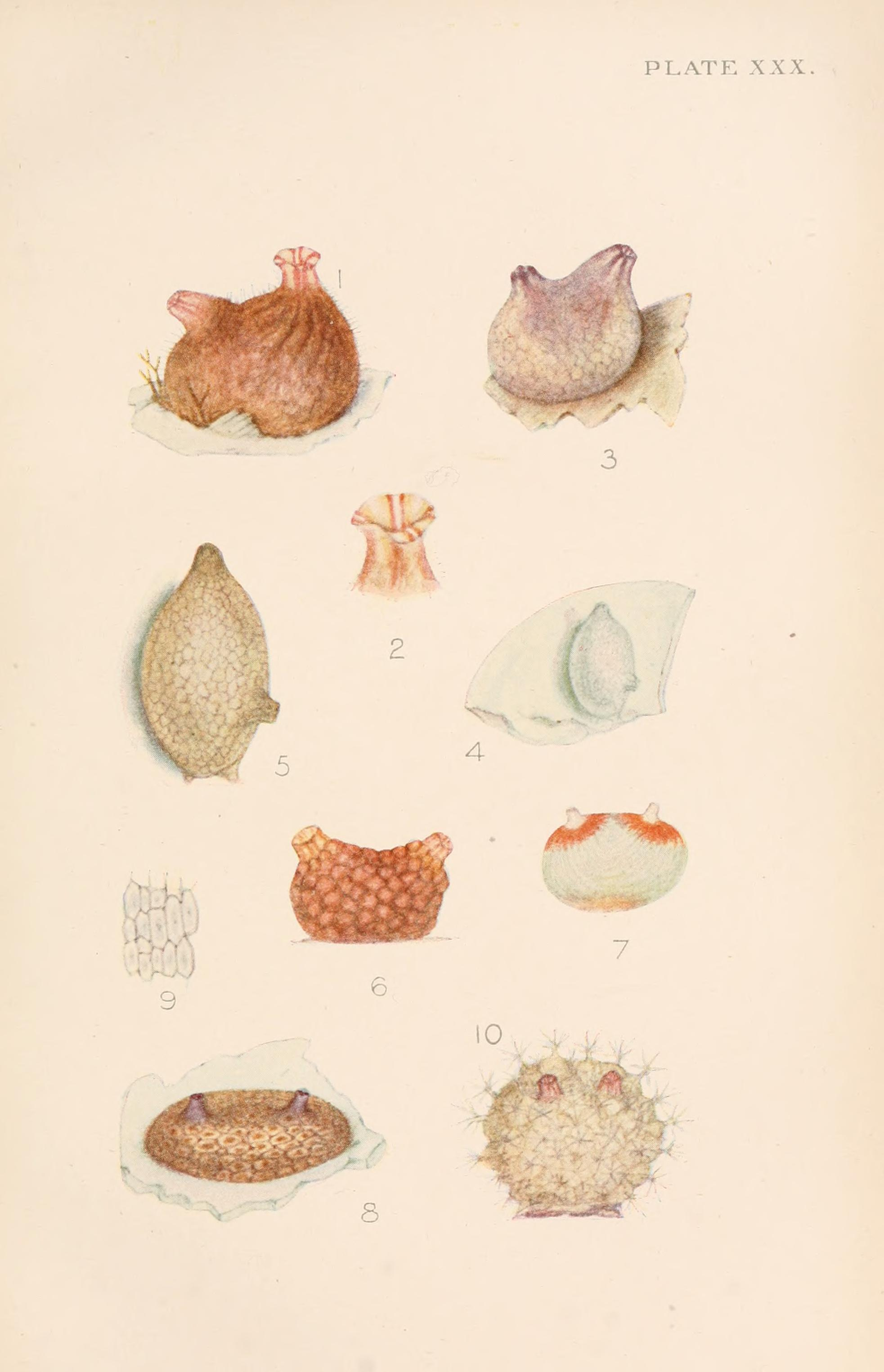 Alder, Joshua, Embleton, Dennis, Hancock, Albany, Hopkinson, John,Norman, Alfred Merle ,1905-12 The British Tunicata; an unfinished monograph, by the late Joshua Alder and the late Albany Hancock. Edited by John Hopkinson, with a history of the work by the Rev. A. M. Norman.London,Printed for the Ray society. Volume 2 Plate 30 Figures 1 , 2 - Cynthia claudicans. Fig. 3 – C. squamulosa. Figs. 4, 5 - C.ovata. Figs.6, 7 – C. morus. Figs. 8,9 – C. tessellata. Fig. 10 C. echinata. PLATE XXX. FIGS. 1 and 2. Cynthia claudicans Sav. (p. 78) 1. Test: natural size. 2. Branchial siphon and aperture : twice natural size. 3. Cynthia squamulosa Alder, (p. 81) Test: natural size. 4 and 5. Cynthia ovata sp. nov. (p. 84) 4. Test, to show position only, adhering to shell : two-thirds natural size. 5. Test : one and a third natural size. 6 and 7. Cynthia morus Forbes, (p. 86) 6. Test : natural size. 7. Mantle : natural size. 8 and 9. Cynthia tessellata Forbes, (p. 89) 8. Test : twice natural size. 9. Portion of test, showing form of tessellations : a little further enlarged. 10. Cynthia echinata (Linn.) Alder, (p. 93) Test : one and a third natural size.